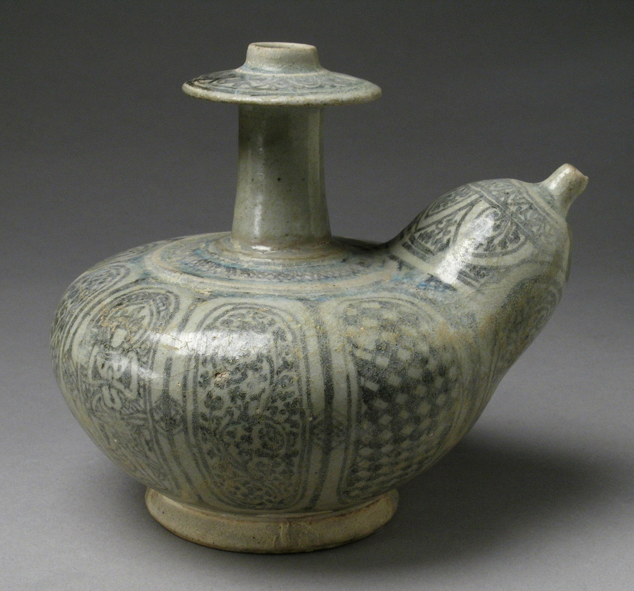 Thailand, Sawankhalok, 16th century Furnishings; Accessories Wheel-thrown stoneware with cream slip, underglaze brown painted decoration, and pale blue glaze Gift of Ambassador and Mrs. Edward E. Masters (M.84.213.65) South and Southeast Asian Art